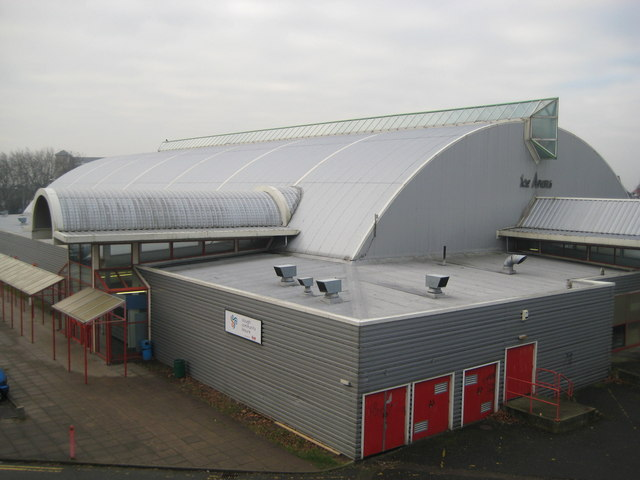 Slough Ice Arena - One of Slough Community Leisure's venues, the latest attractions at the arena LinkExternal link are foamtastic evenings and ice karting. The arena is also the home of Slough Jets LinkExternal link ice hockey team who play in the English Premier Ice Hockey League. This view was taken from the top of SU9680 : Slough: Montem Mount or Mound.